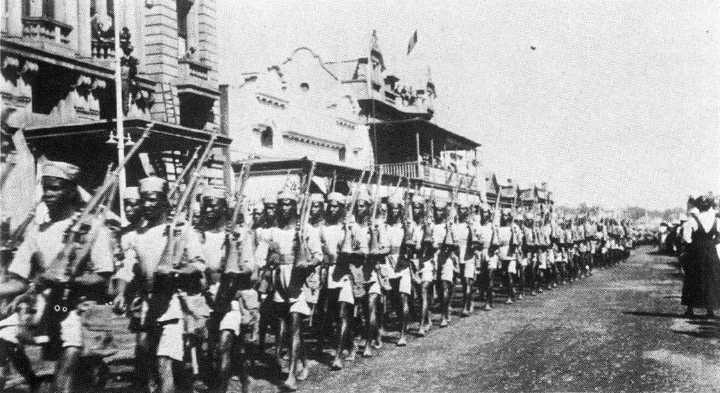 Men of the 1st Rhodesia Native Regiment march through the streets of the Southern Rhodesian capital Salisbury in 1916, prior to going to war in East Africa